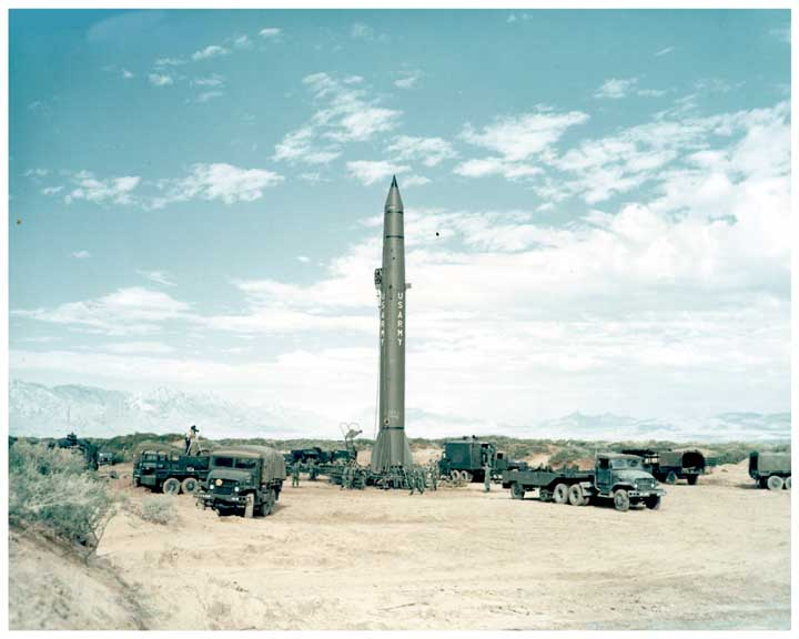 Redstone rocket photograph without description.